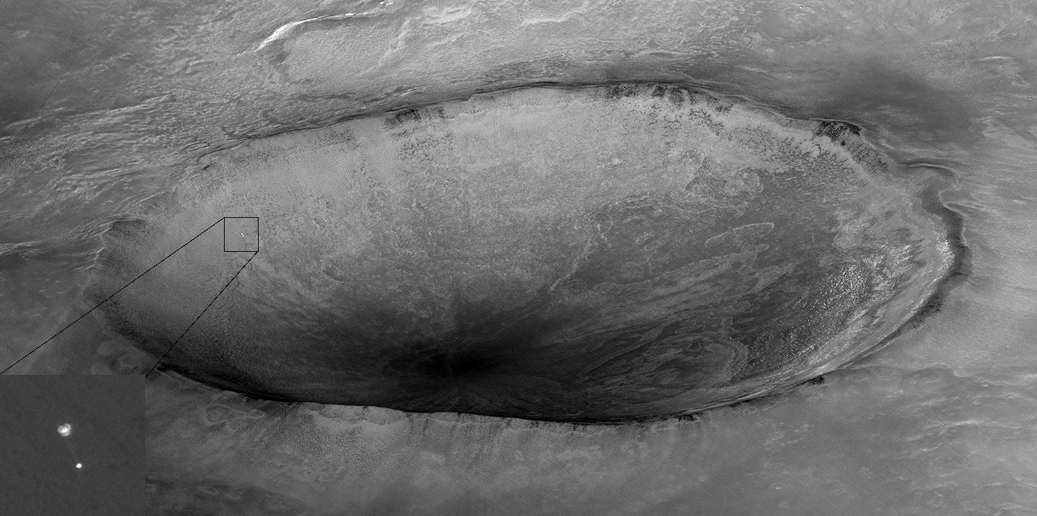 Image taken by Mars Reconnaissance Orbiter showing descent of Phoenix with a crater in the background. Original caption from NASA: "Mars Reconnaissance Orbiter's High Resolution Imaging Science Experiment (HiRISE) camera acquired this image of Phoenix hanging from its parachute as it descended to the Martian surface. Shown here is a 10 kilometer (6 mile) diameter crater informally called "Heimdall," and an improved full-resolution image of the parachute and lander. Although it appears that Phoenix is descending into the crater, it is actually about 20 kilometers (about 12 miles) in front of the crater. Given the position and pointing angle of MRO, Phoenix is at about 13 km above the surface, just a few seconds after the parachute opened. This image shows some details of the parachute, including the gap between upper and lower sections. At the time of this observation, MRO had an orbital altitude of 310 km, traveling at a ground velocity of 3.4 kilometers/second, and a distance of 760 km to the Phoenix lander. The Phoenix Mission is led by the University of Arizona, Tucson, on behalf of NASA. Project management of the mission is by NASA's Jet Propulsion Laboratory, Pasadena, Calif. Spacecraft development is by Lockheed Martin Space Systems, Denver."